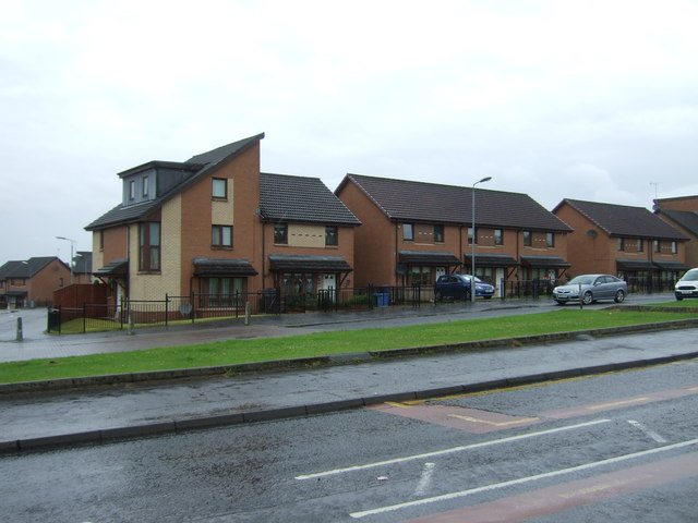 Houses on Langbar Crescent